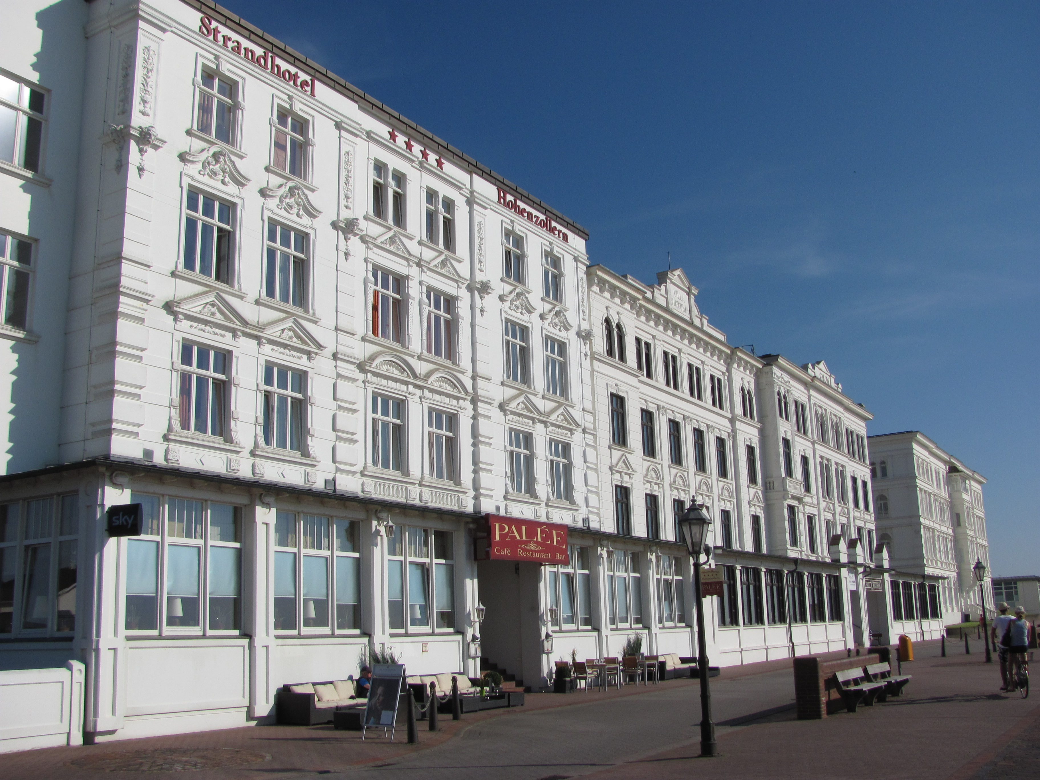 Hotel "Hohenzollern" Borkum. In front of it the area of former Nordbahnhof